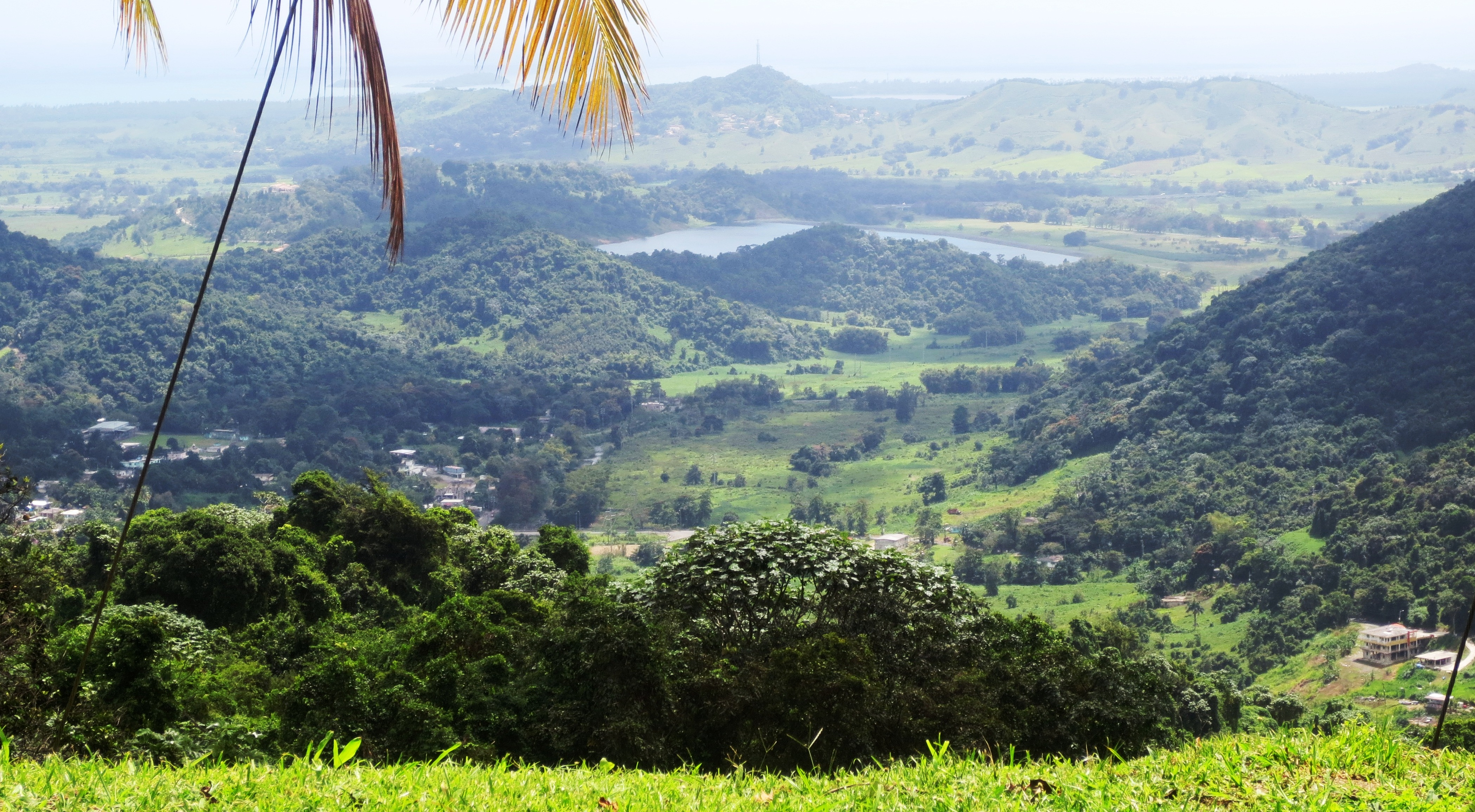 The Rio Blanco offstream reservoir, a medium-size earthfill embankment dam constructed around 2006 for water Storage and drainage purposes.